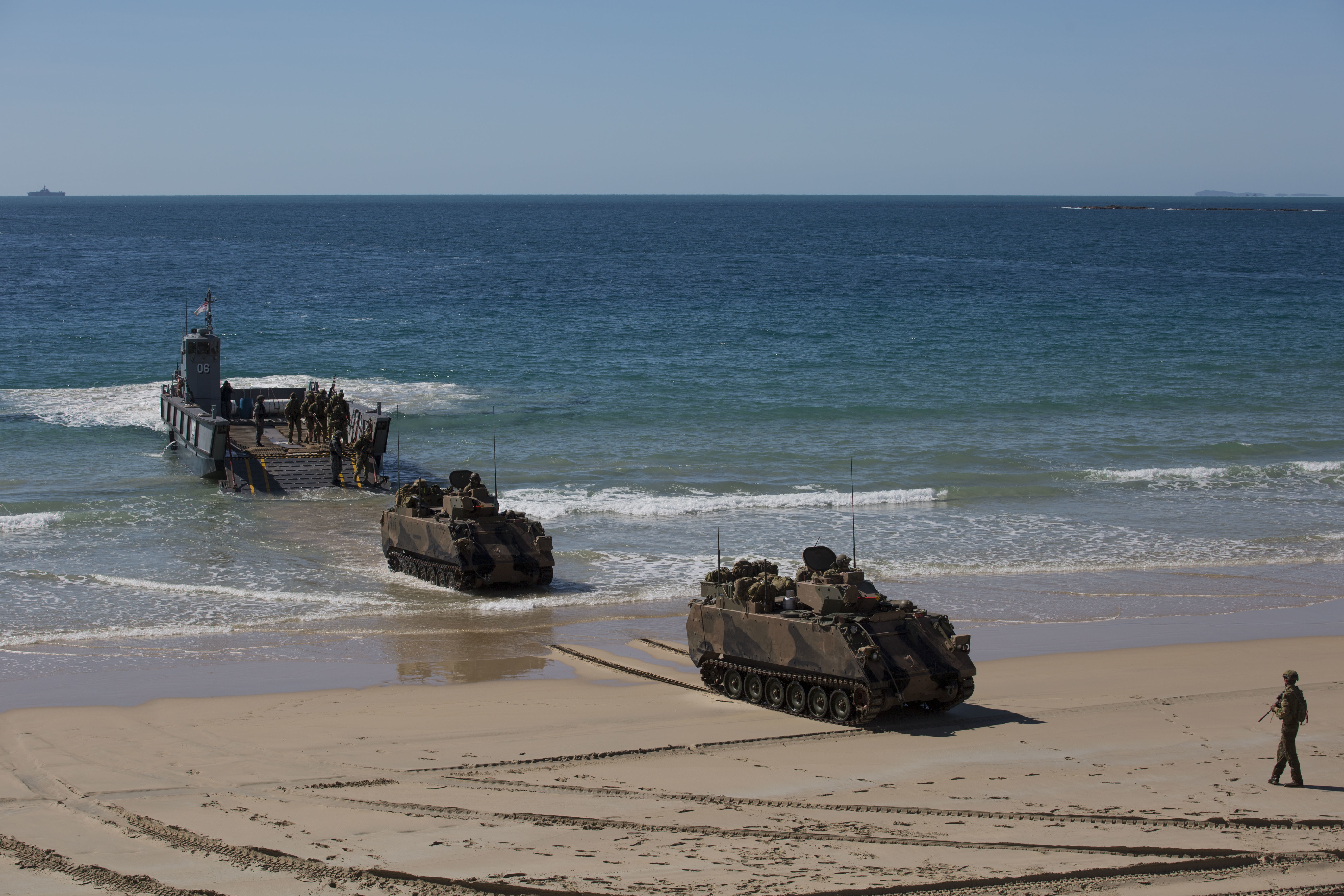 190716-M-MA011-0434 SHOALWATER BAY TRAINING AREA, Australia (July 16, 2019) Amphibious assault vehicles with the United States military, Australian Defence Force and Japan Self-Defense Force simulate a combined force entry assault operation onboard an LHD Landing Craft as a part of Talisman Sabre 2019 on Langhams Beach, Shoalwater Bay Training Area, Australia, July 16, 2019. TS19 is a month of high end, realistic warfighting training designed to increase U.S. and Australian combat readiness and interoperability. (U.S. Marine Corps photo by Lance Cpl. Kealii De Los Santos/Released)